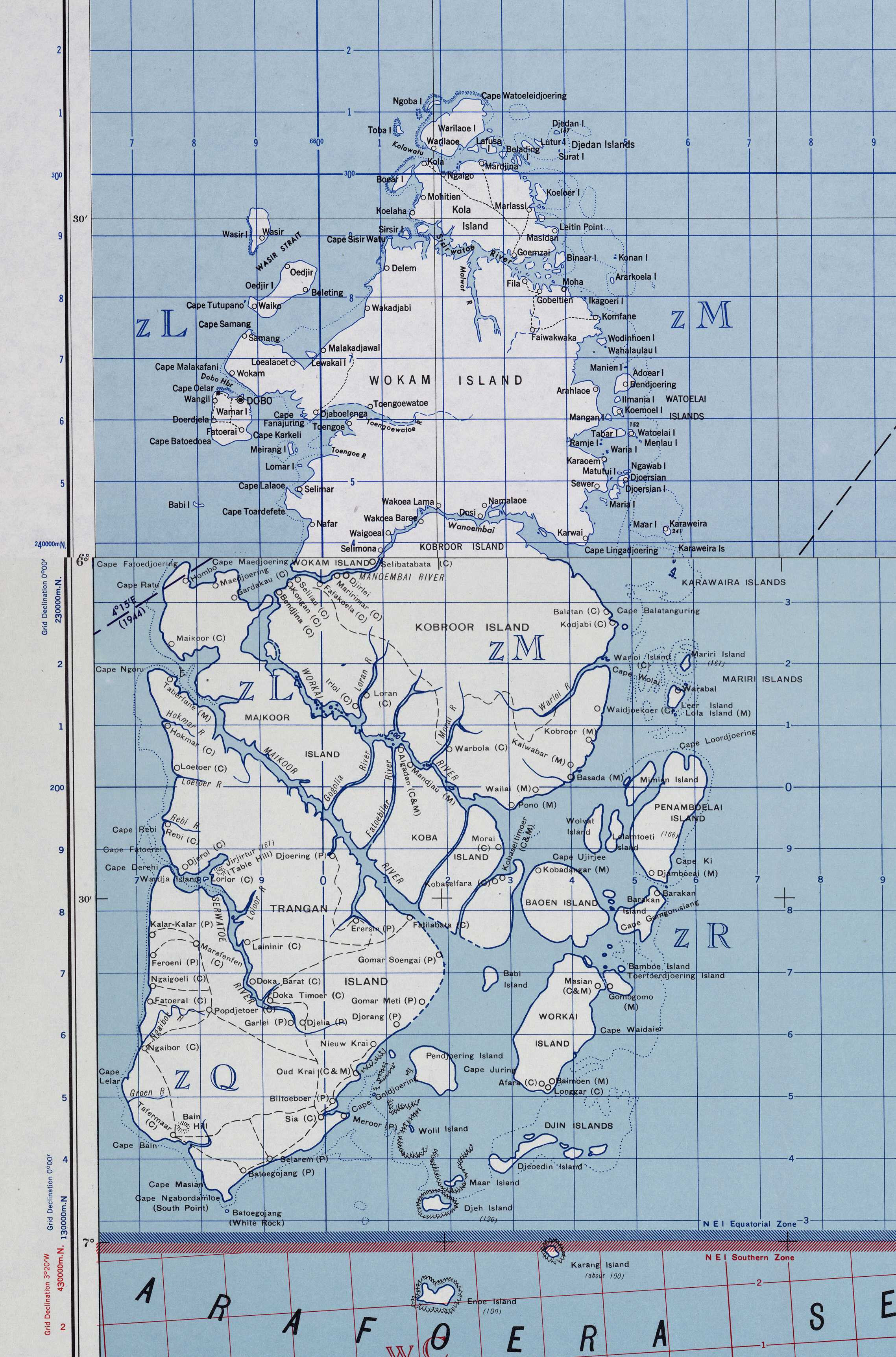 map of southern Aru Islands, Indonesia